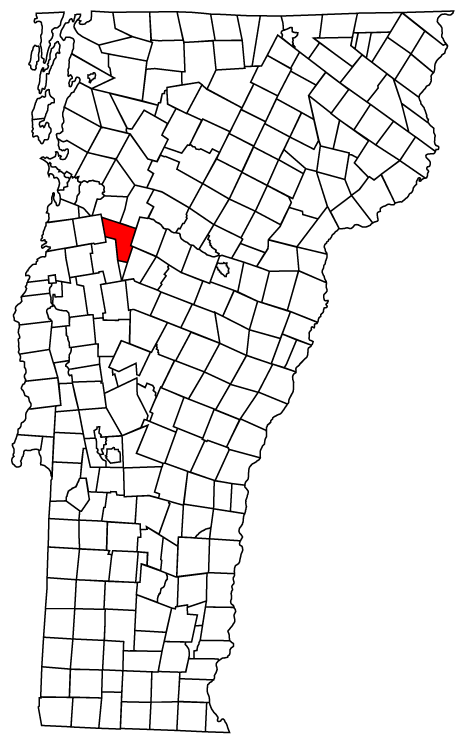 Description: Map of Vermont towns with Huntington highlighted Source: Map created by Jared C. Benedict on 26 March 2004. Copyright: © Jared C. Benedict.